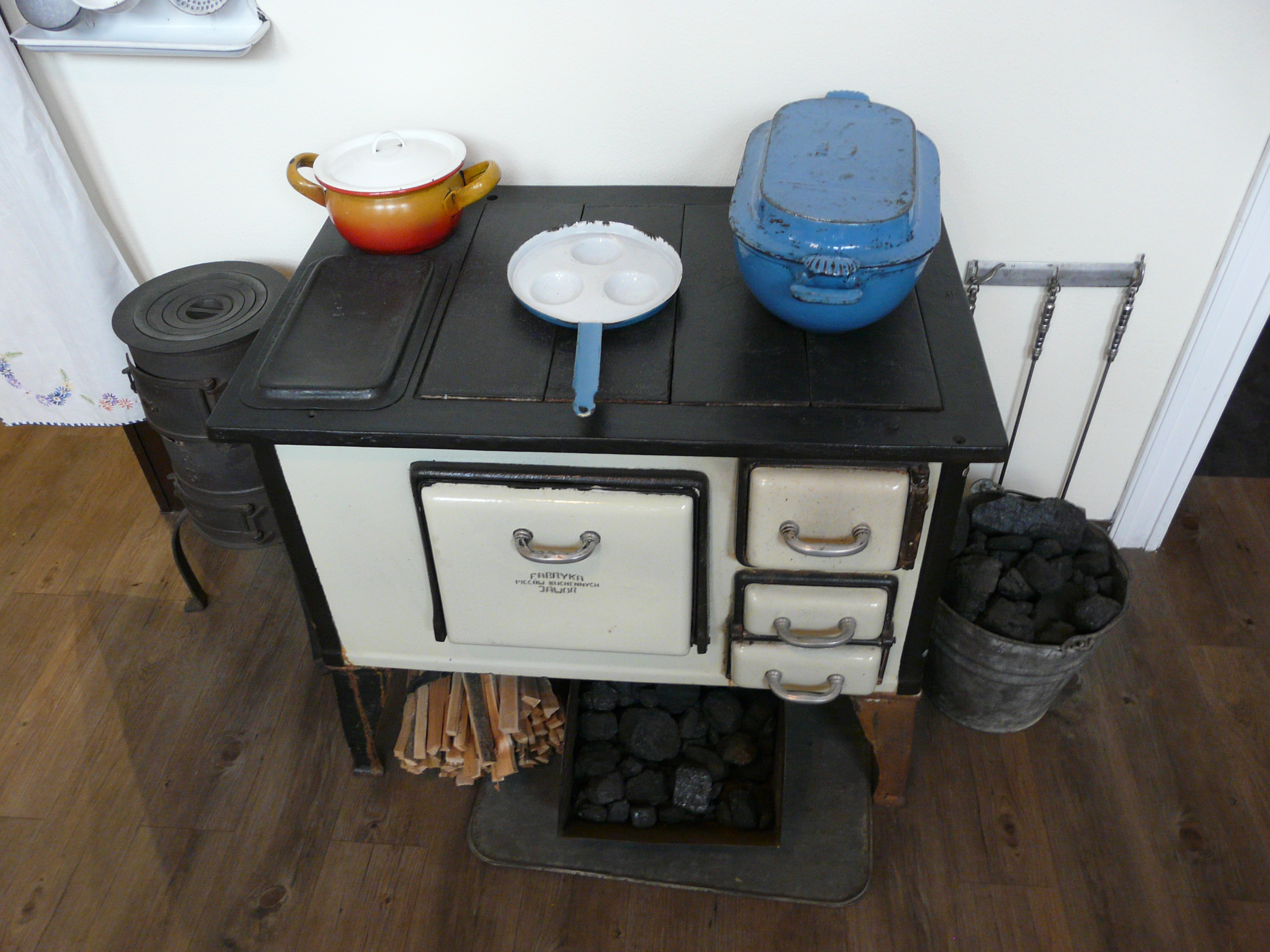 Katowice, Nikiszowiec. Muzeum Historii Katowic. From the collections: "U nos w doma na Nikiszu" (depictions of average households, pics 18-49) and "Woda i mydło najlepsze bielidło" (depictions of communal laundry, pics 5-17).